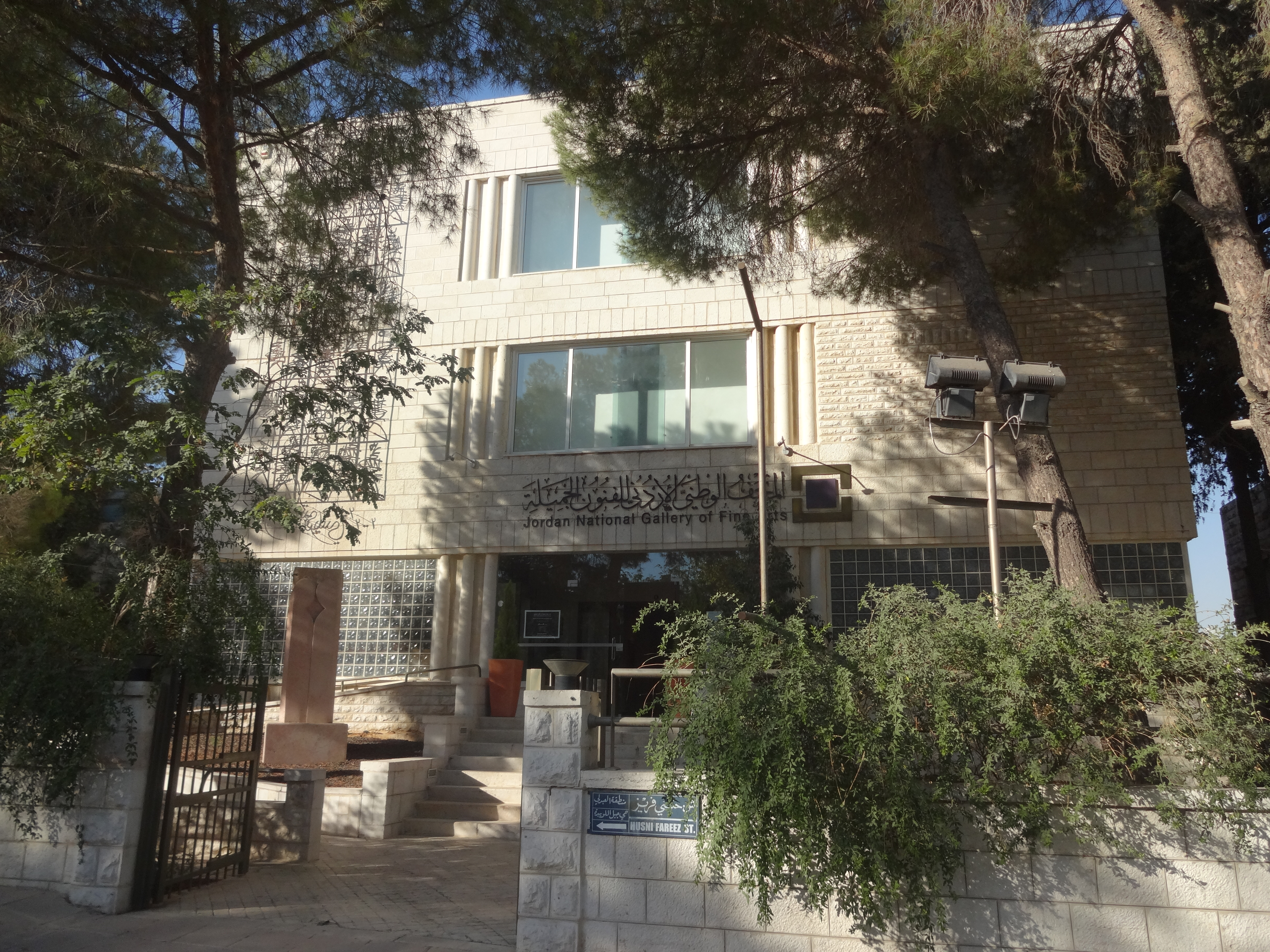 Jordan National Gallery of Fine Arts, Amman, Jordan